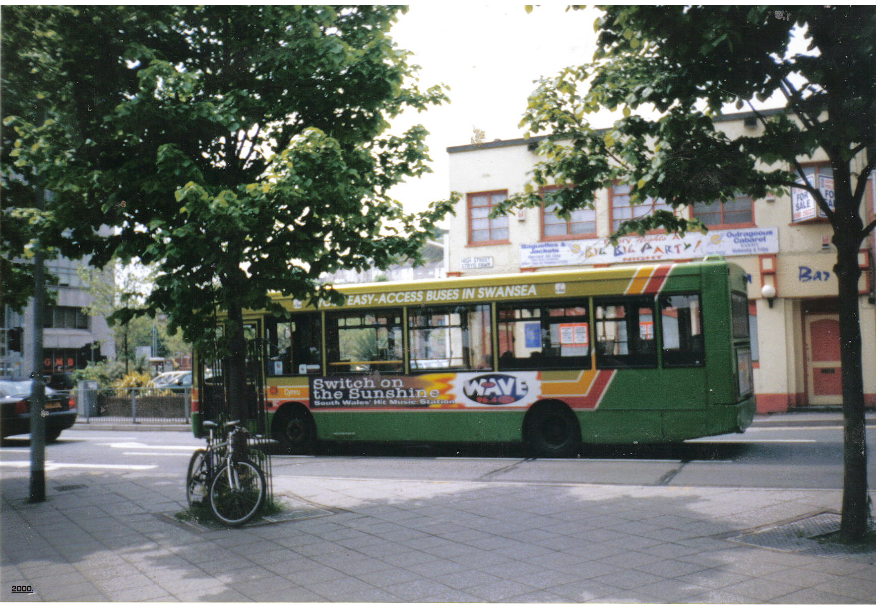 I took the picture of this FirstGroup bus my self in Swansea during the year 2000. I here by release it in to the public domain.